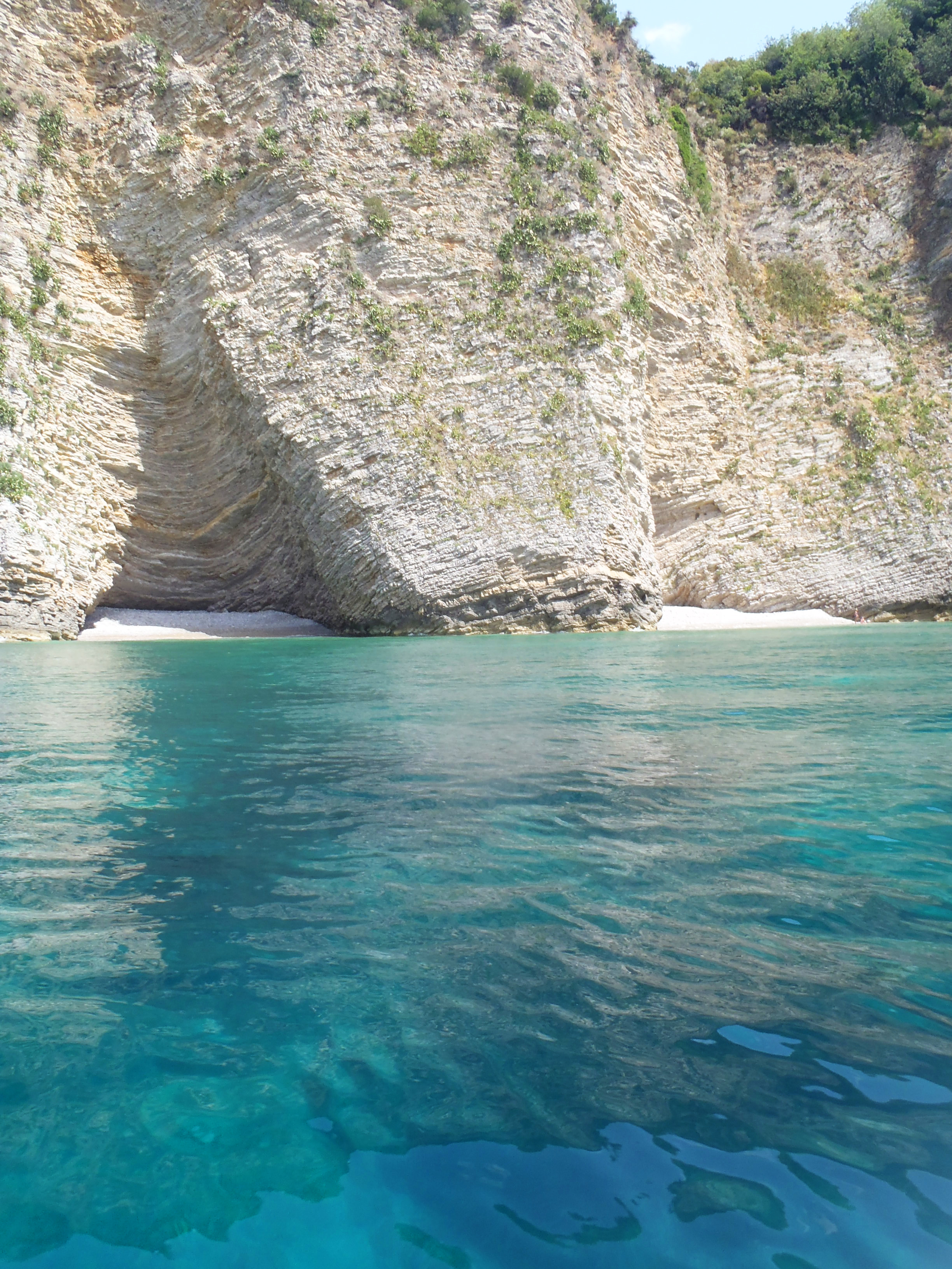 Two beaches at the Island of Sveti Nikola, Budva